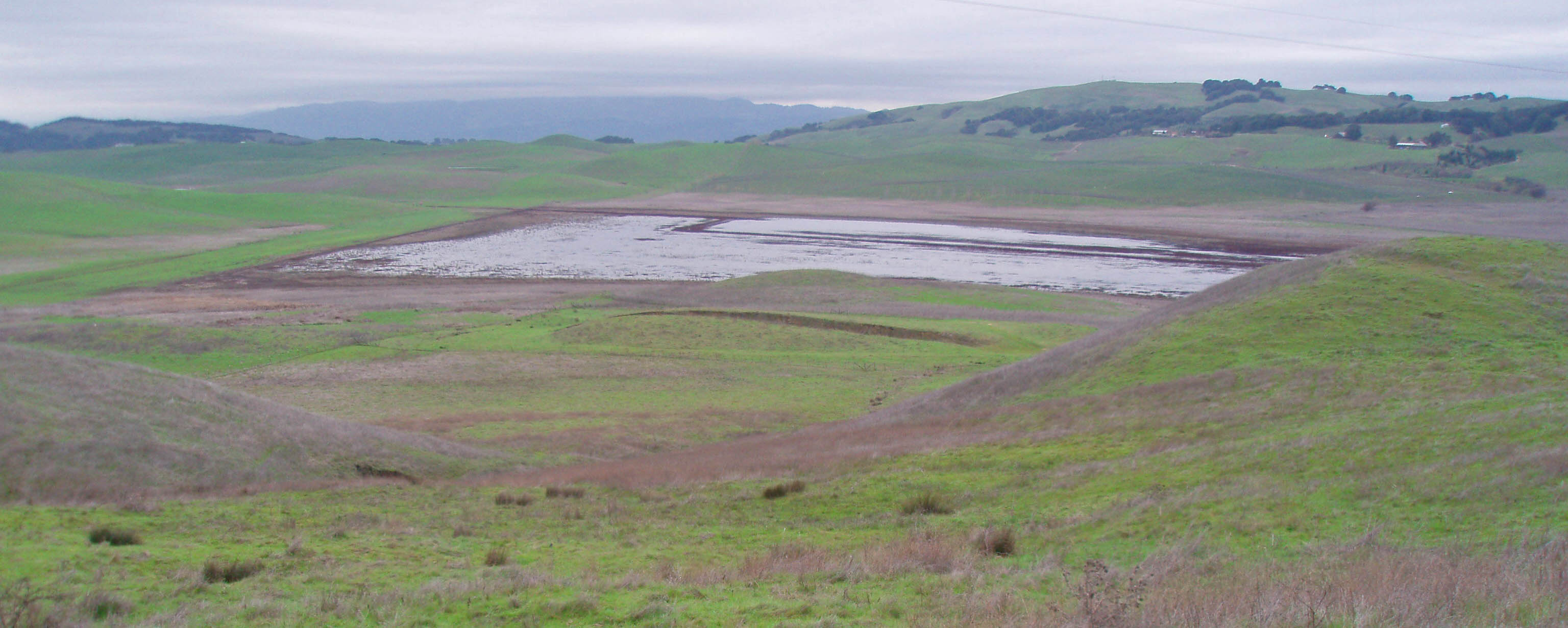 Tolay Lake — seen from the south, in Sonoma County, California. Photographer: self